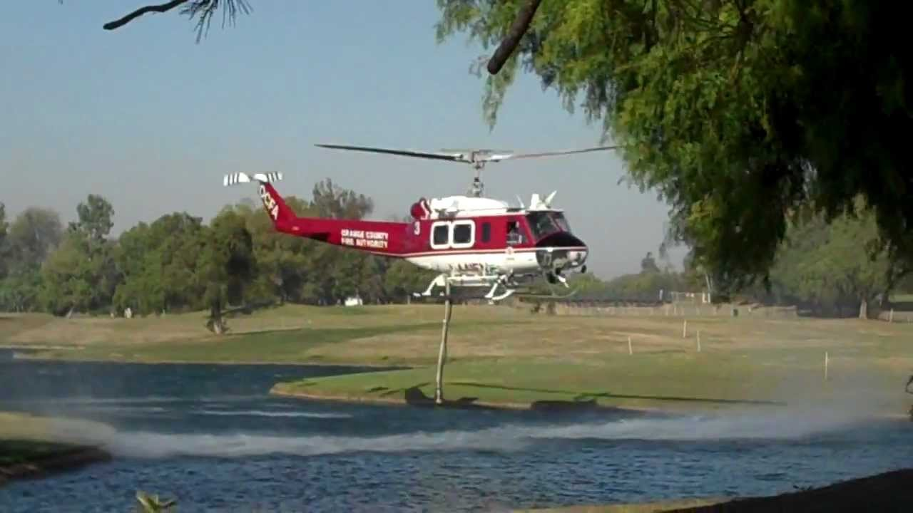 An Orange County Fire Authority fire helicopter extracting water from the lake in Carbon Canyon Regional Park.